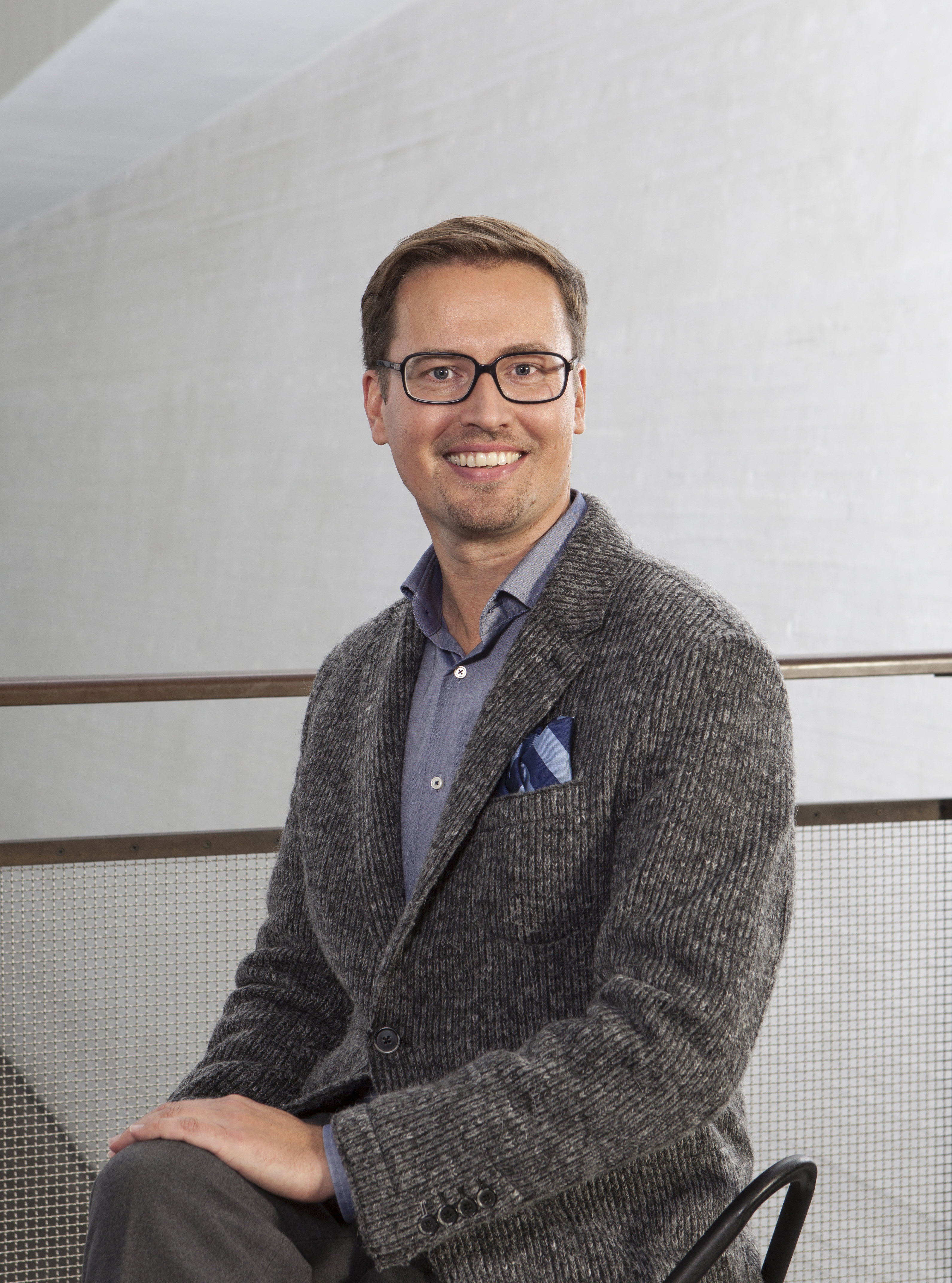 Kansallisgalleria, henkilökuva Leevi Haapala, museonjohtaja, Nykytaiteen museo Kiasma kuva: Pirje Mykkänen / Finnish National Gallery